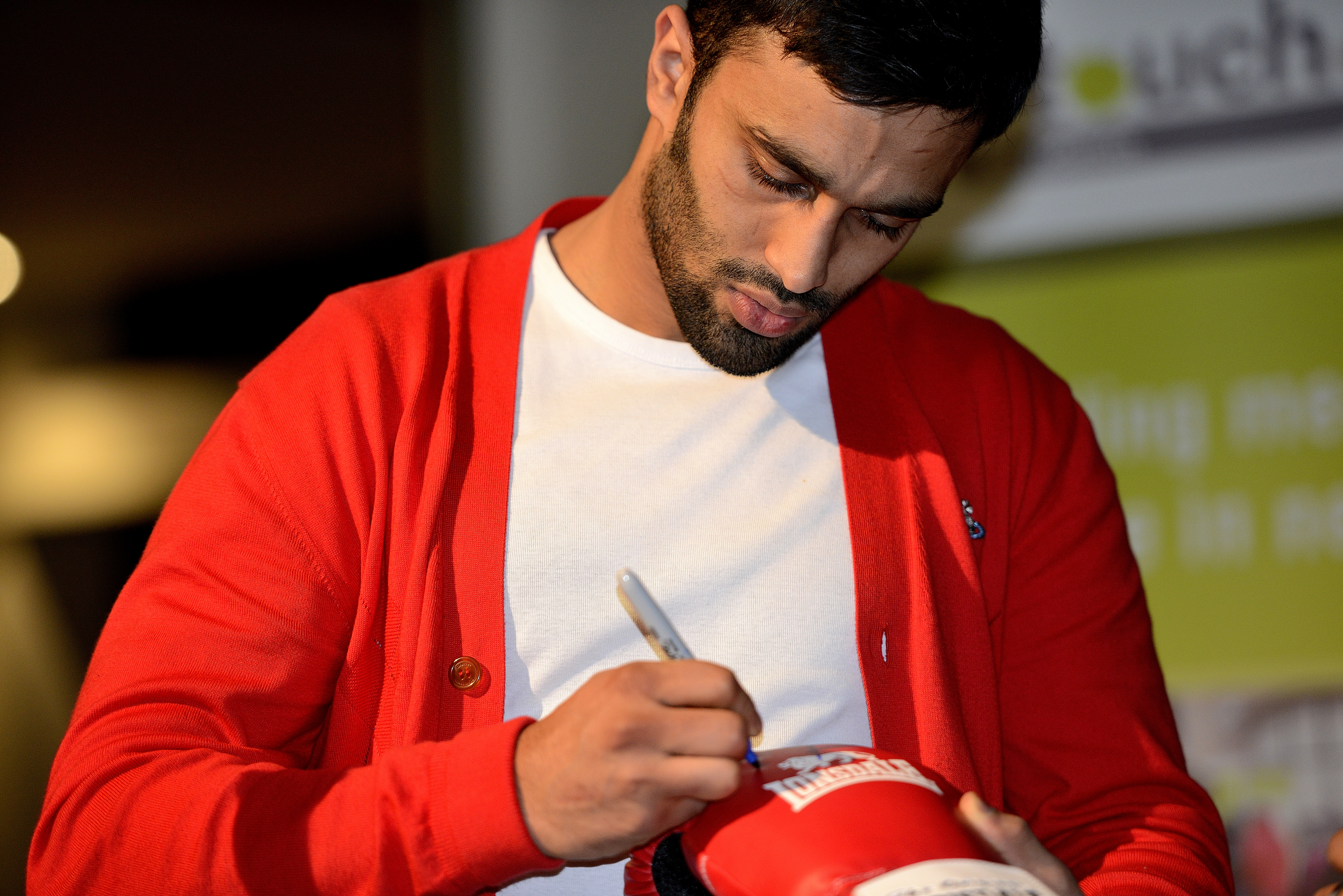 Adil Anwar Supporting InTouch Foundation